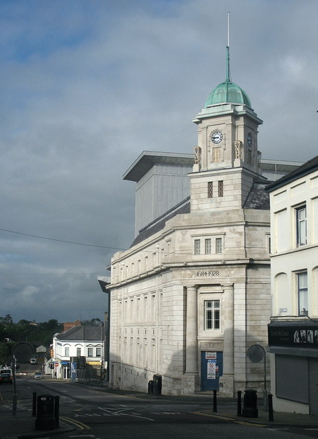 Ballymena Town Hall